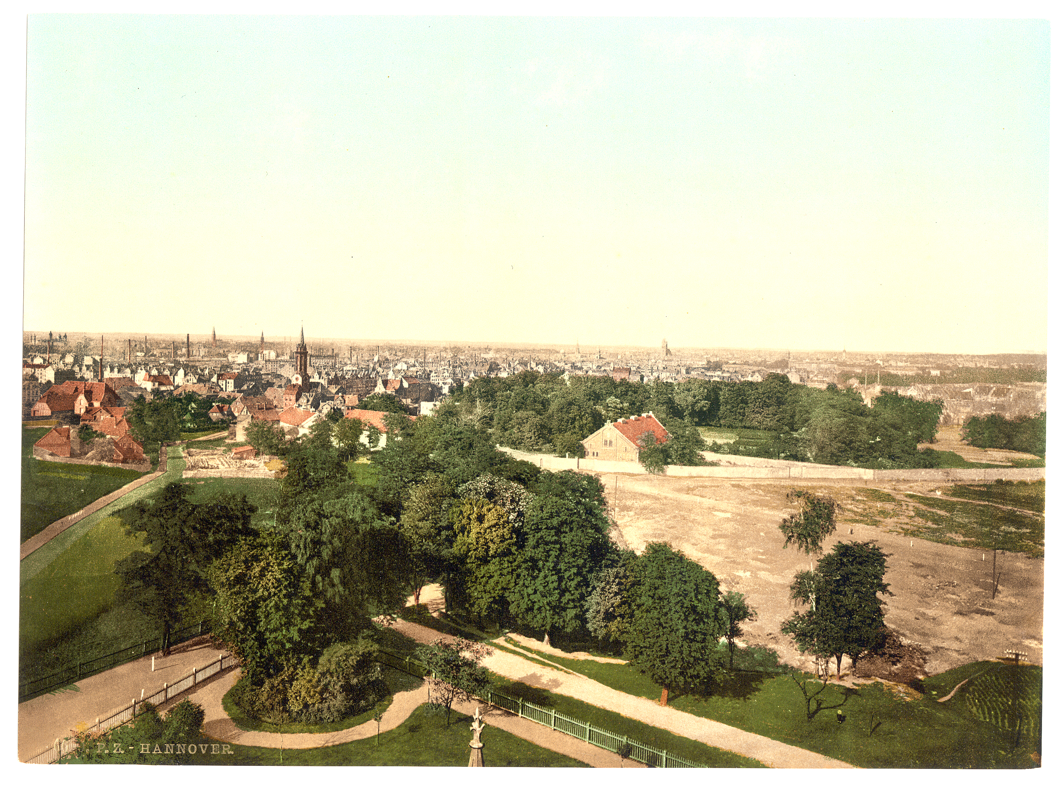 View from the hill Lindener Berg to Hanover